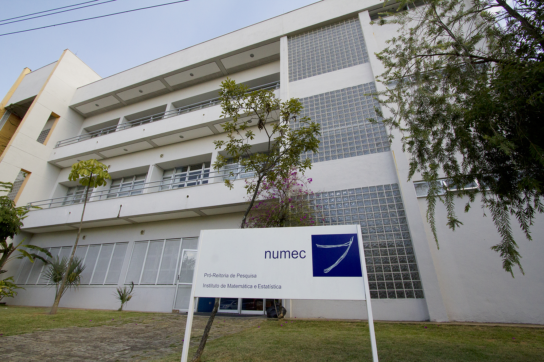 Picture of the building where the Research, Innovation and Dissemination Center for Neuromathematics (NeuroMat), from the Univeristy of São Paulo, is located.